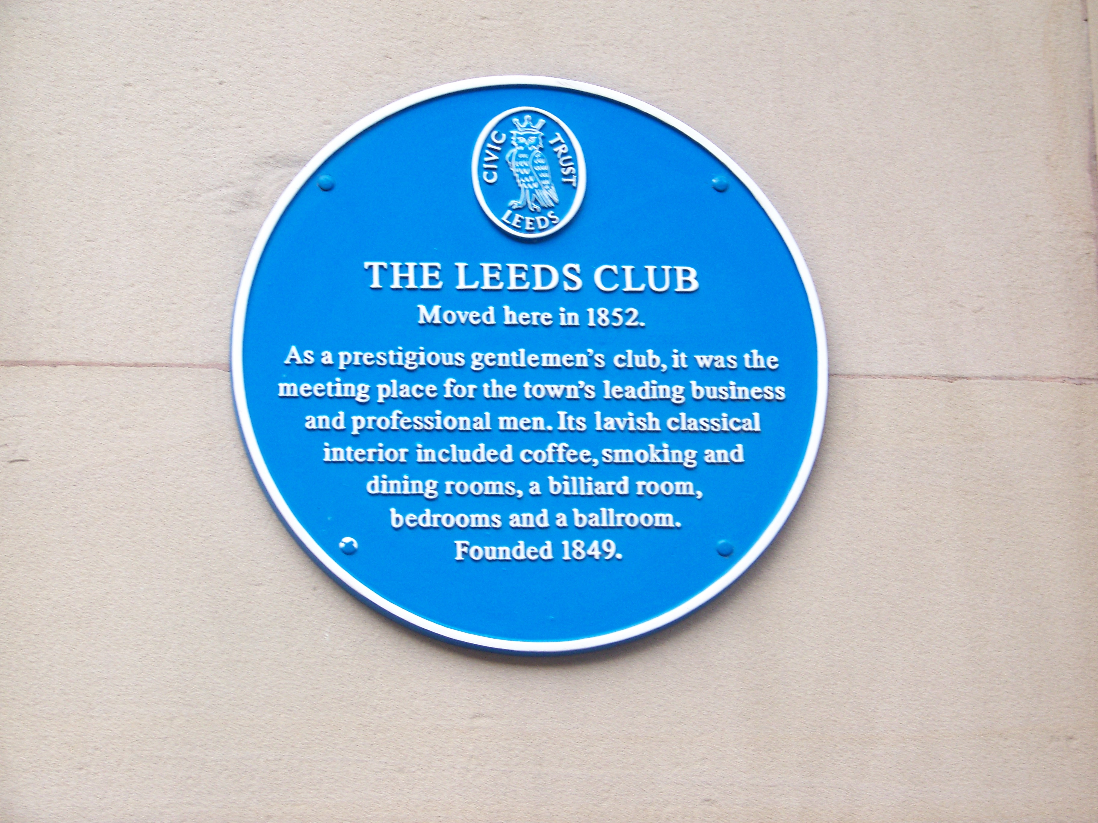 A blue plaque positioed outside The Leeds Club, a 'prestigious gentlemens' club' on Commercial Street, Leeds. Taken on the afternoon of Saturday the 23rd of January 2010.